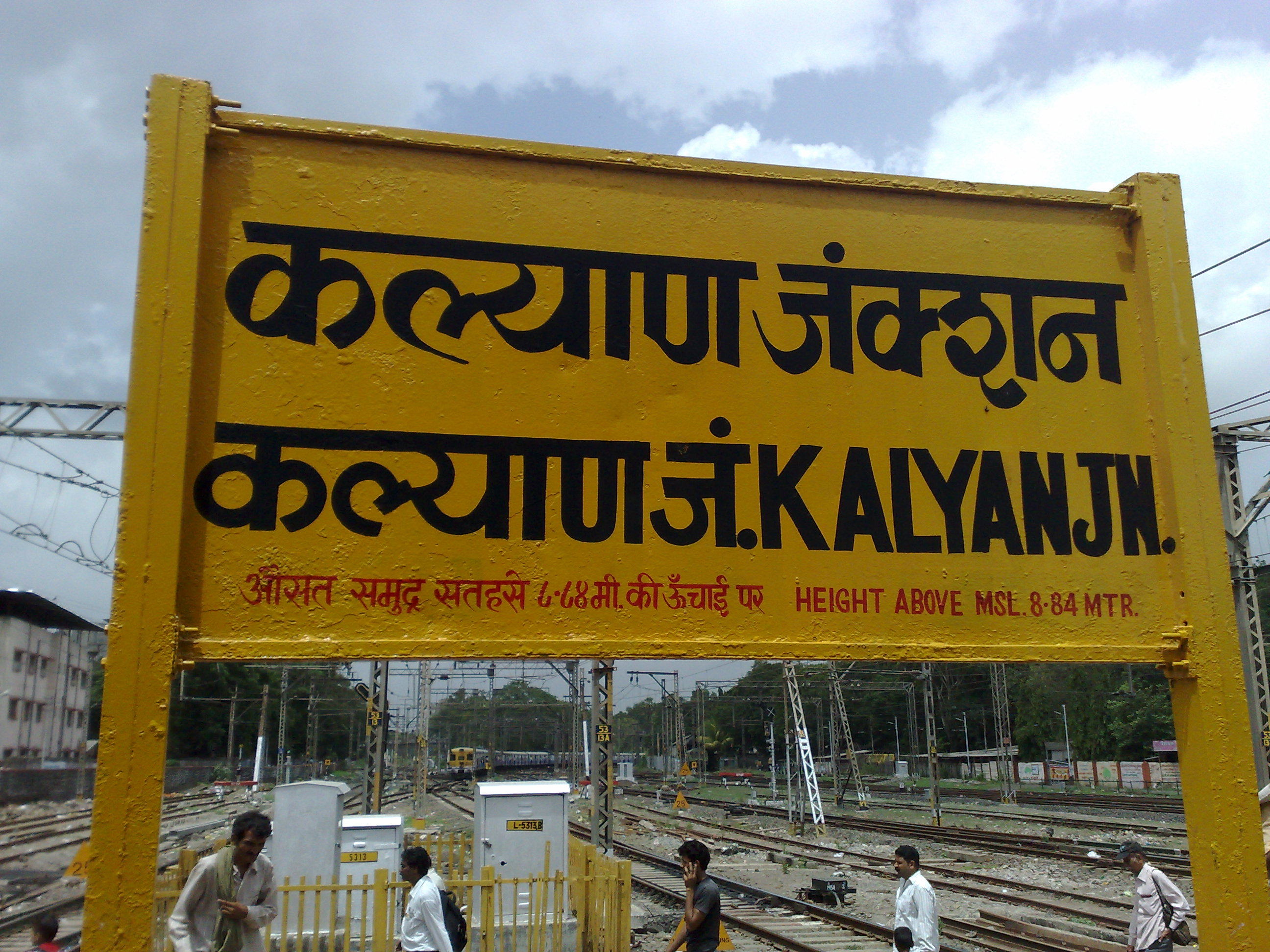 Kalyan Junction railway station - Stationboard